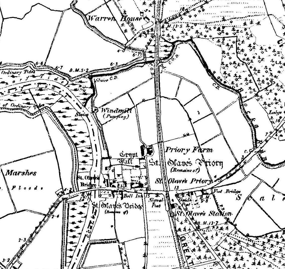 OS Map name 089/NE Lower Thurlton, Thorpe, NR14 6